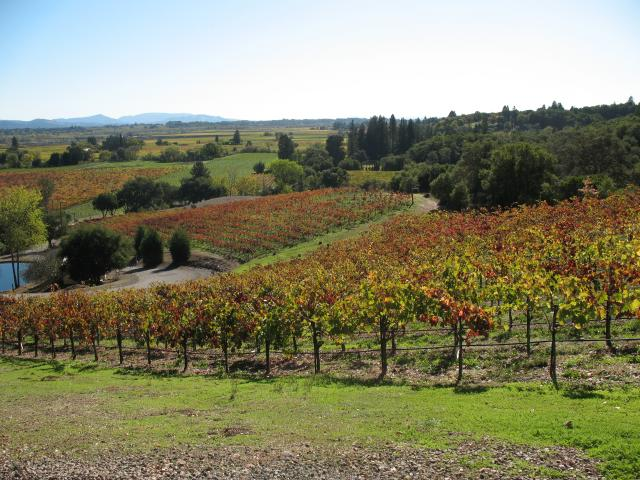 Vineyards in the Dry Creek Valley AVA of Sonoma County, California, in November, 2008. The photo was taken from the parking lot of Armida Winery, looking south across the southernmost portion of the Dry Creek Valley AVA where it meets the boundary of the Russian River Valley AVA.